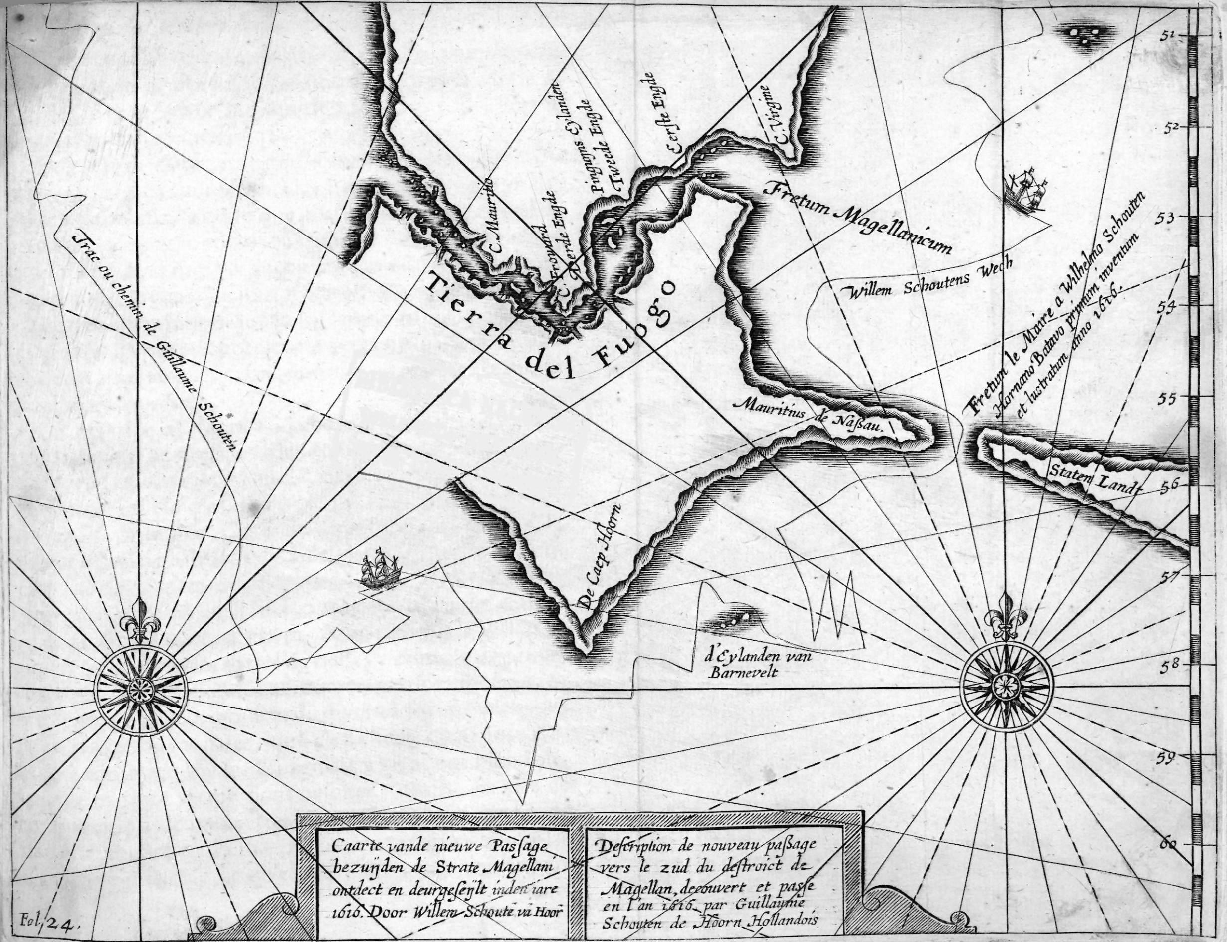 Description of the New Route to the South of the Strait of Magellan Discovered and Set in the Year 1616 by Dutchman Willem Schouten from Hoorn